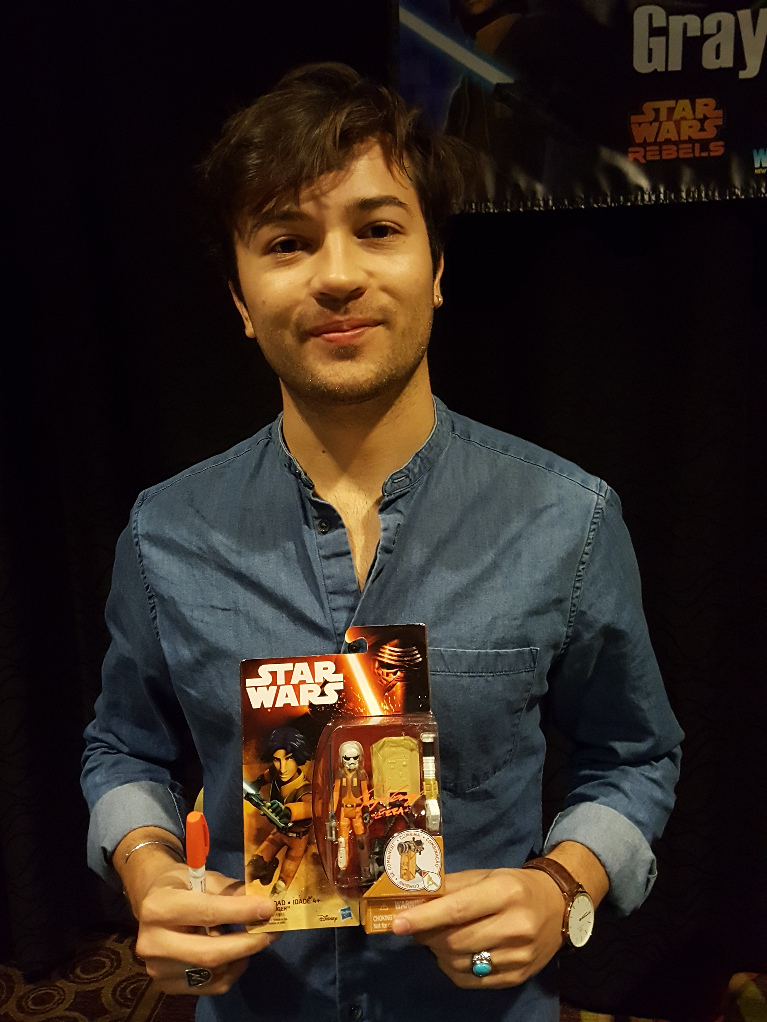 Signed an Ezra Bridger figure from Star Wars Rebels.